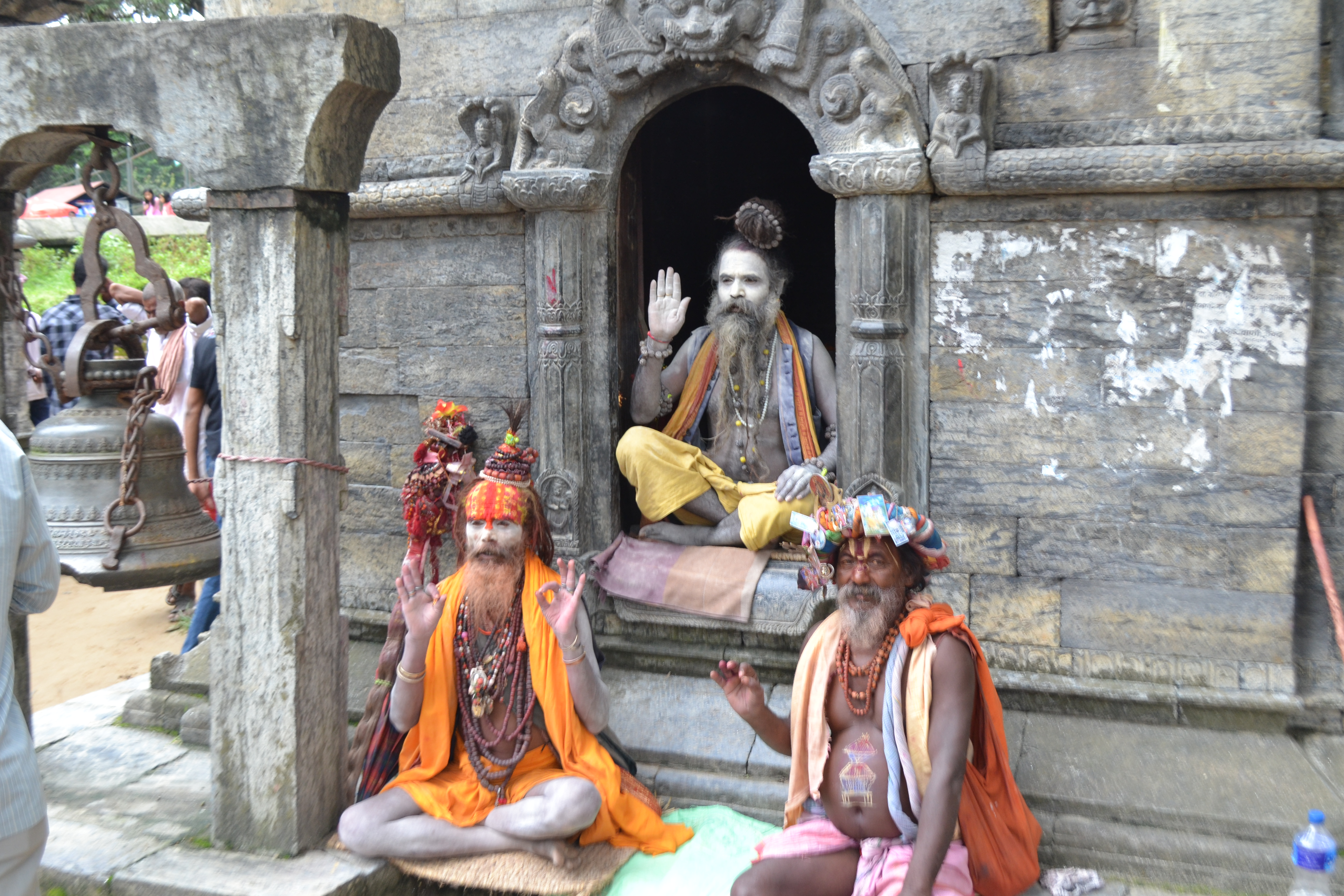 Sadus at Pashupatinath temple